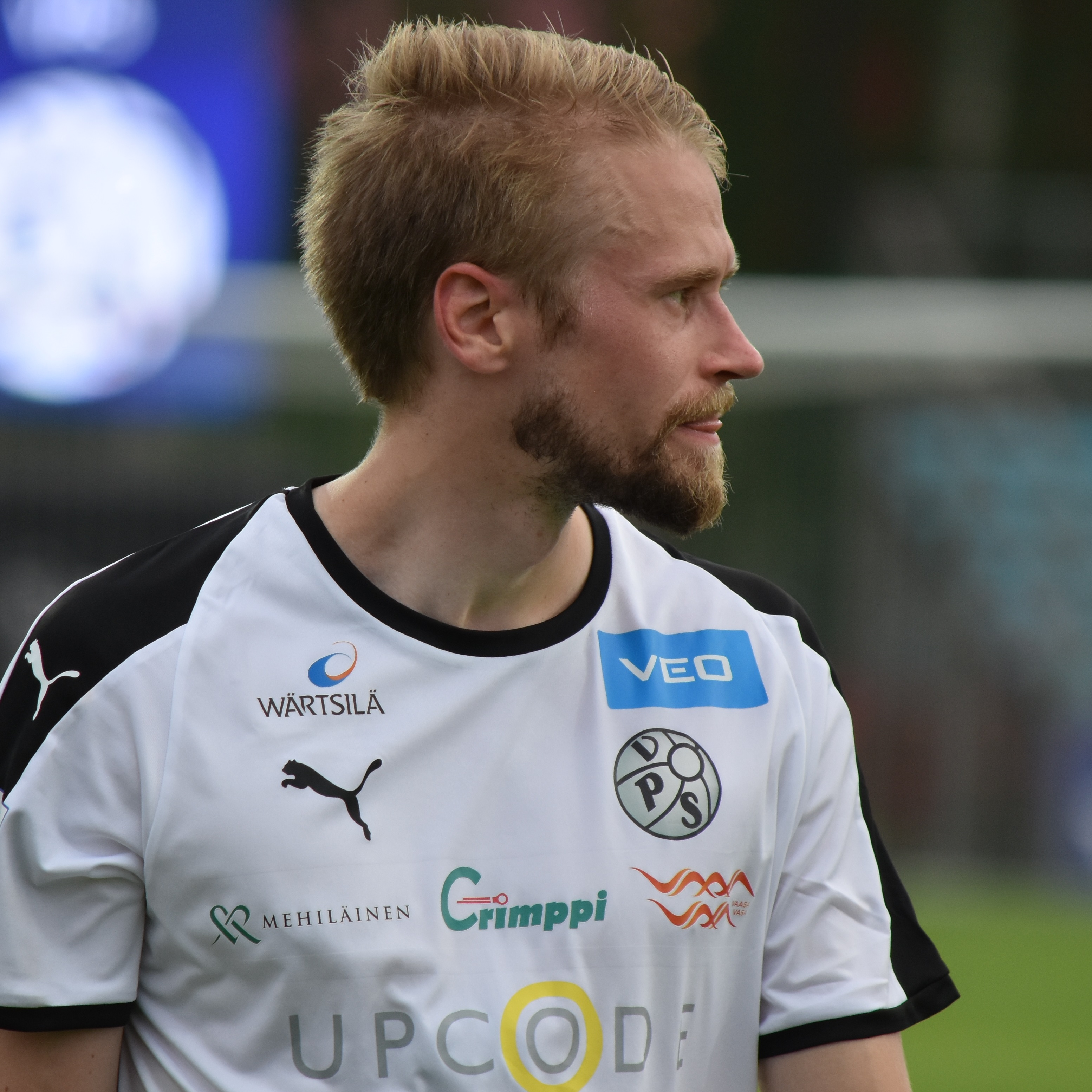 Association football player Juho Lähde (VPS)